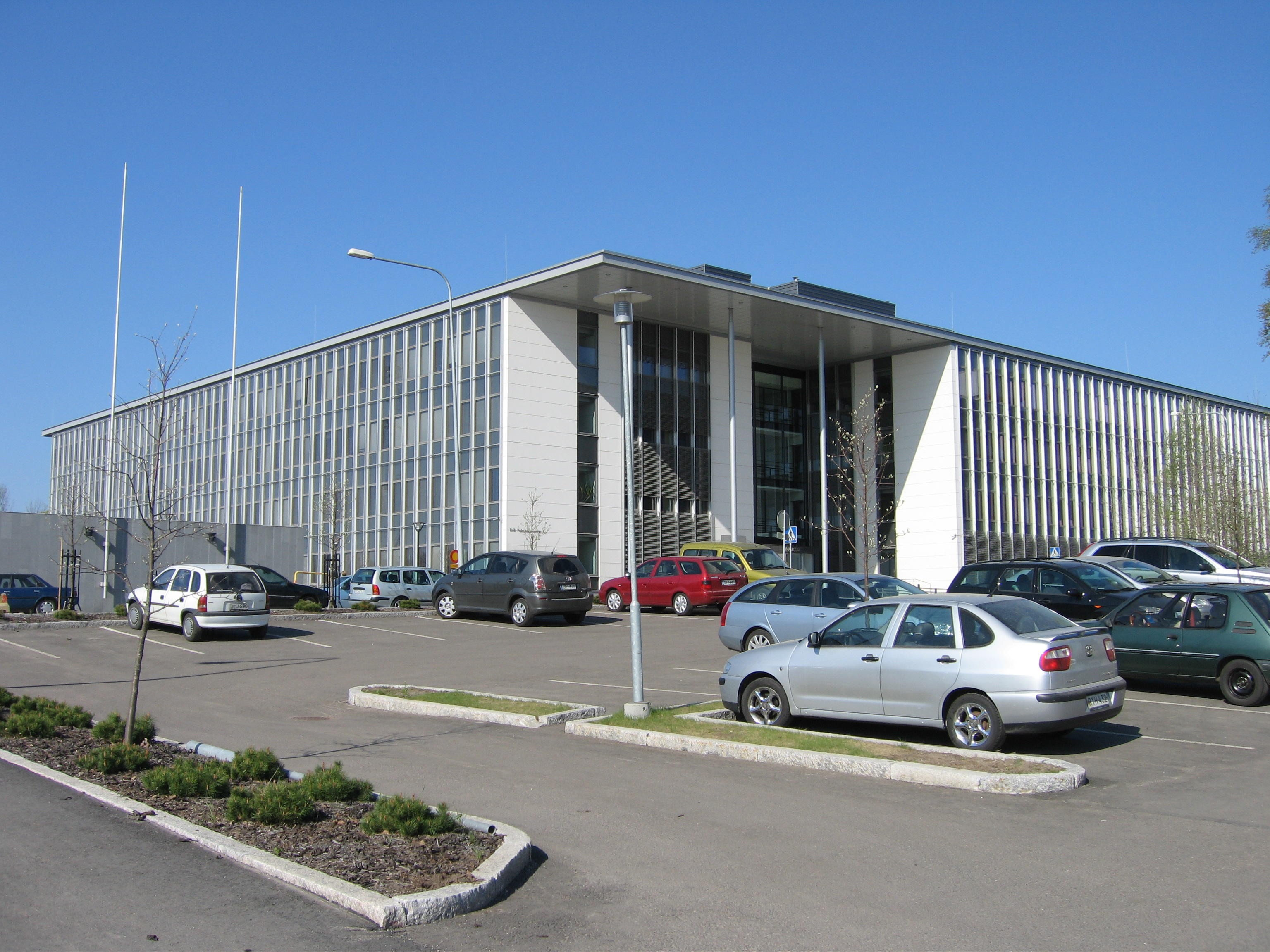 Dynamicum, (Helsinki, Finland) the new building of Finnish Meteorological Institute and Finnish Institute of Marine Research